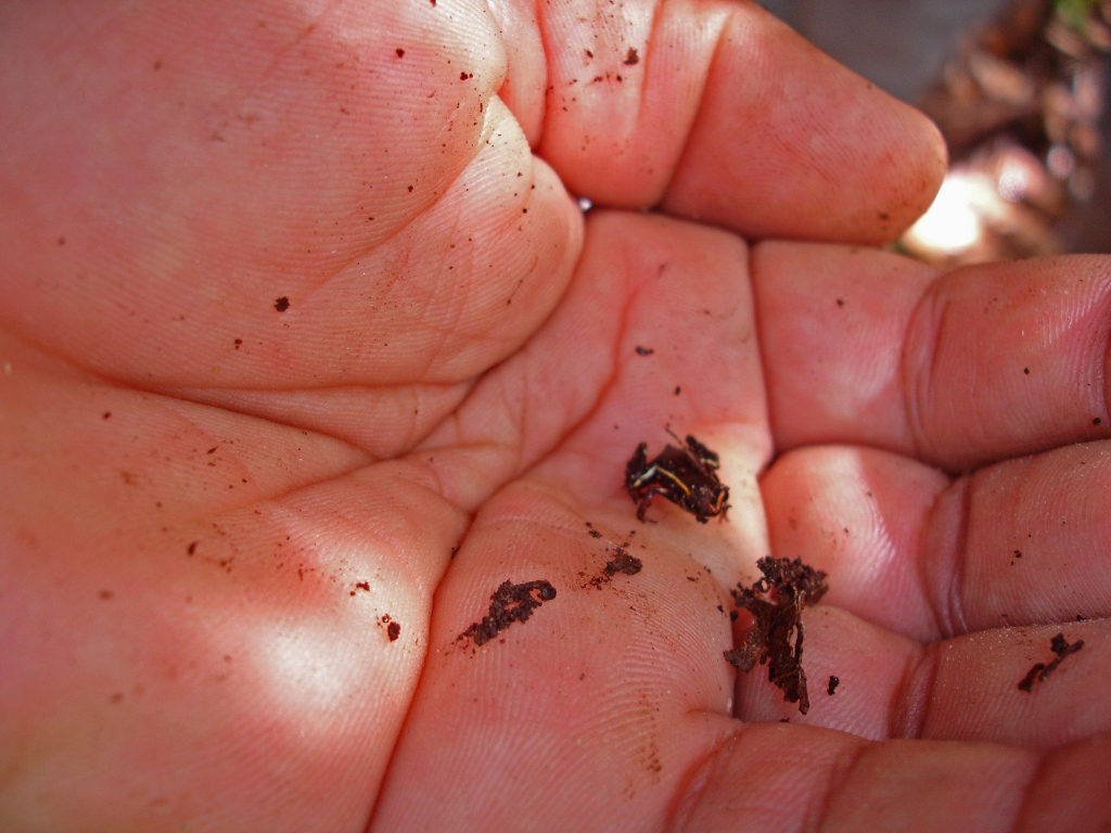 Heard calling and then found in the leaf litter, within Alejandro de Humboldt National Park. Our guide found it and picked it up.